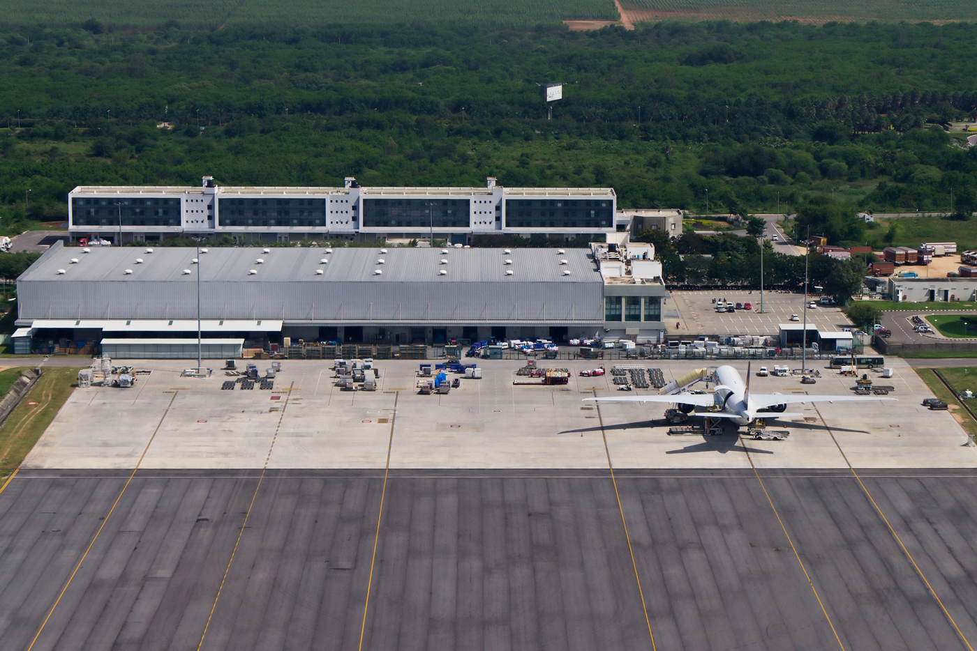 The cargo terminal at Rajiv Gandhi Int'l Airport, Hyderabad.